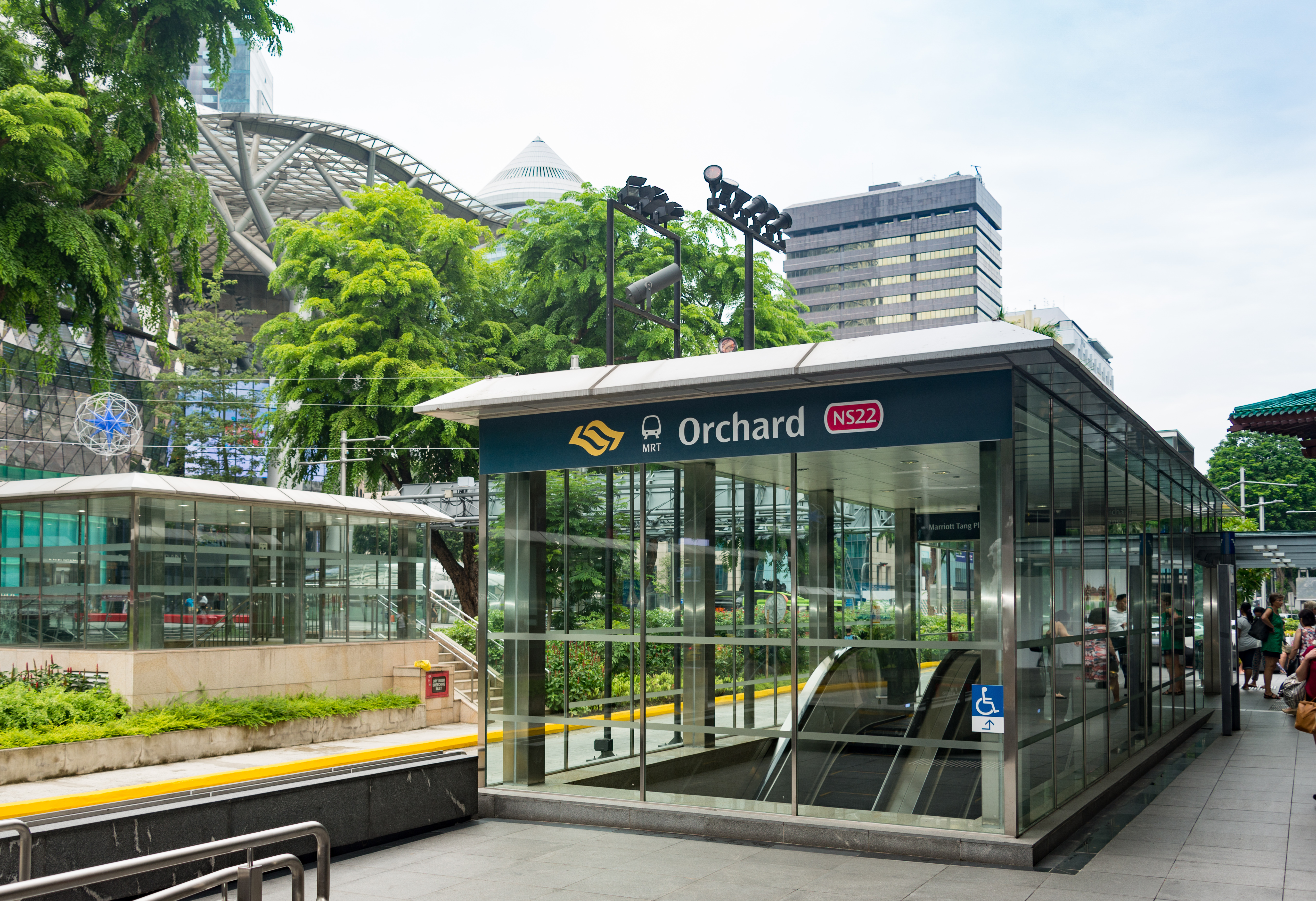 Orchard MRT Station exit in 2016